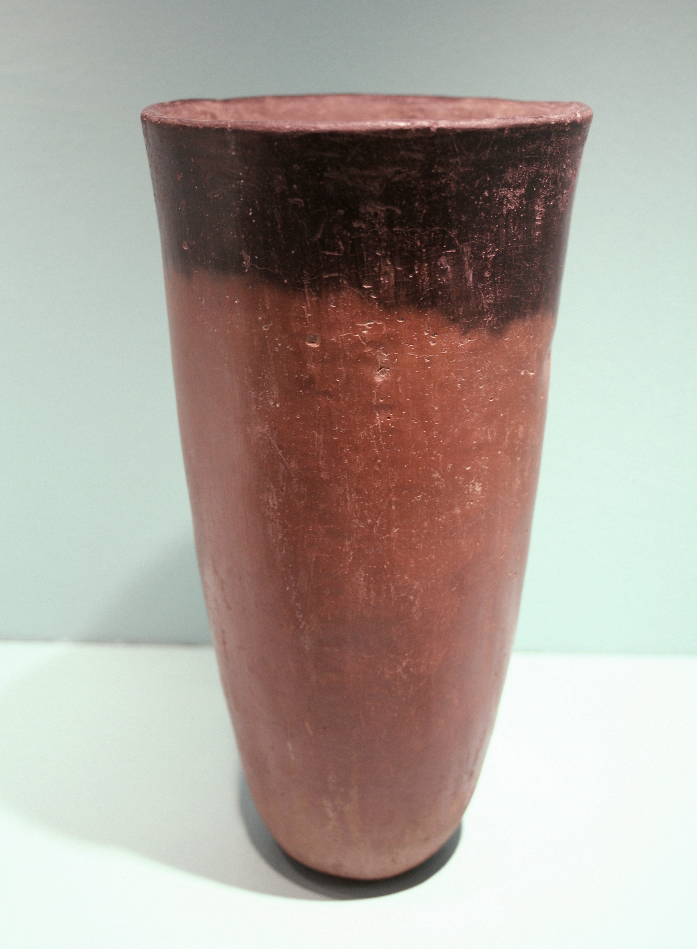 Roemer- und Pelizaeus-Museum, Hildesheim